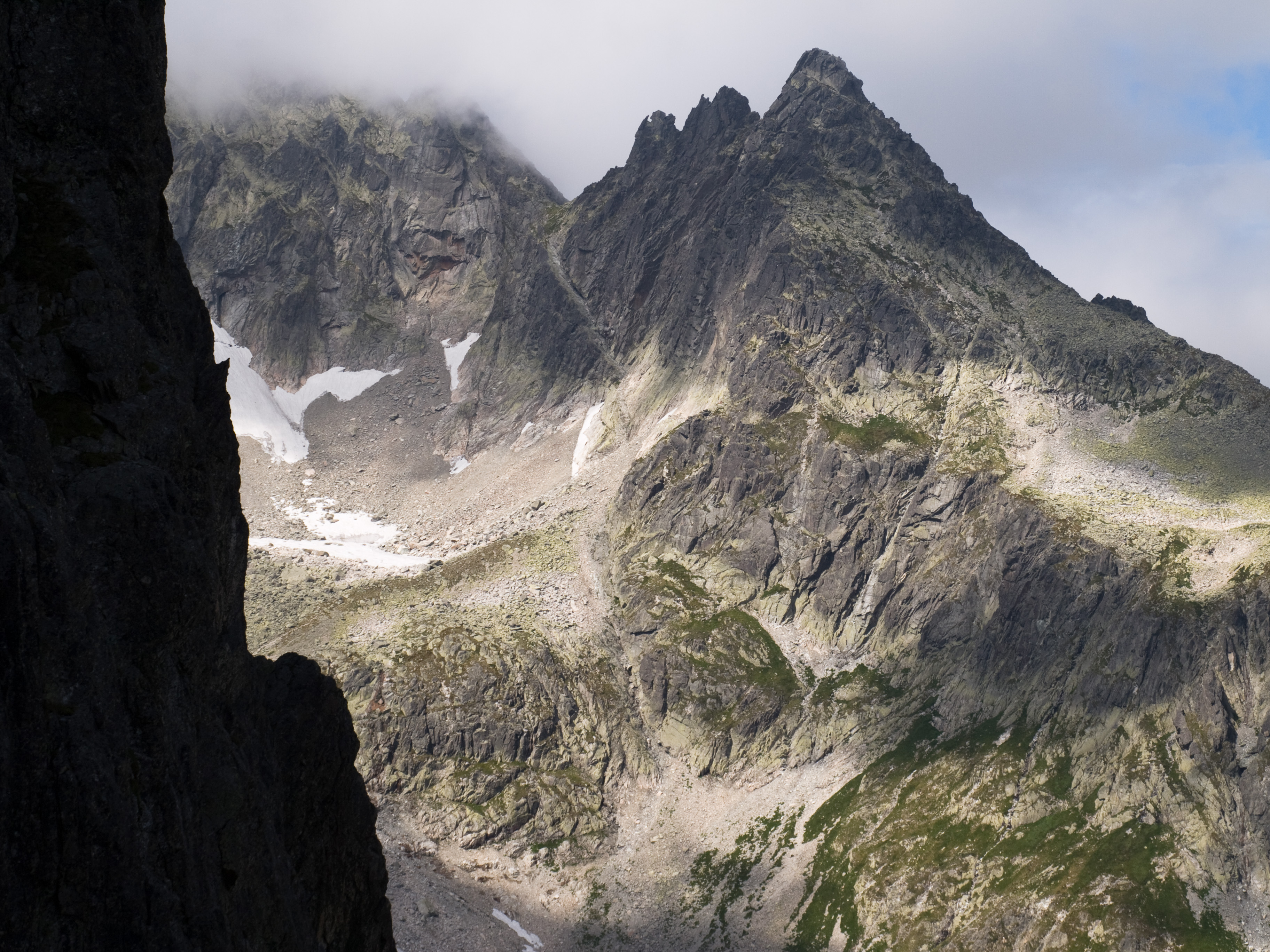 Stolarczykovo sedlo, Čierne veže and Čierny štít over Veľká Zmrzlá dolina